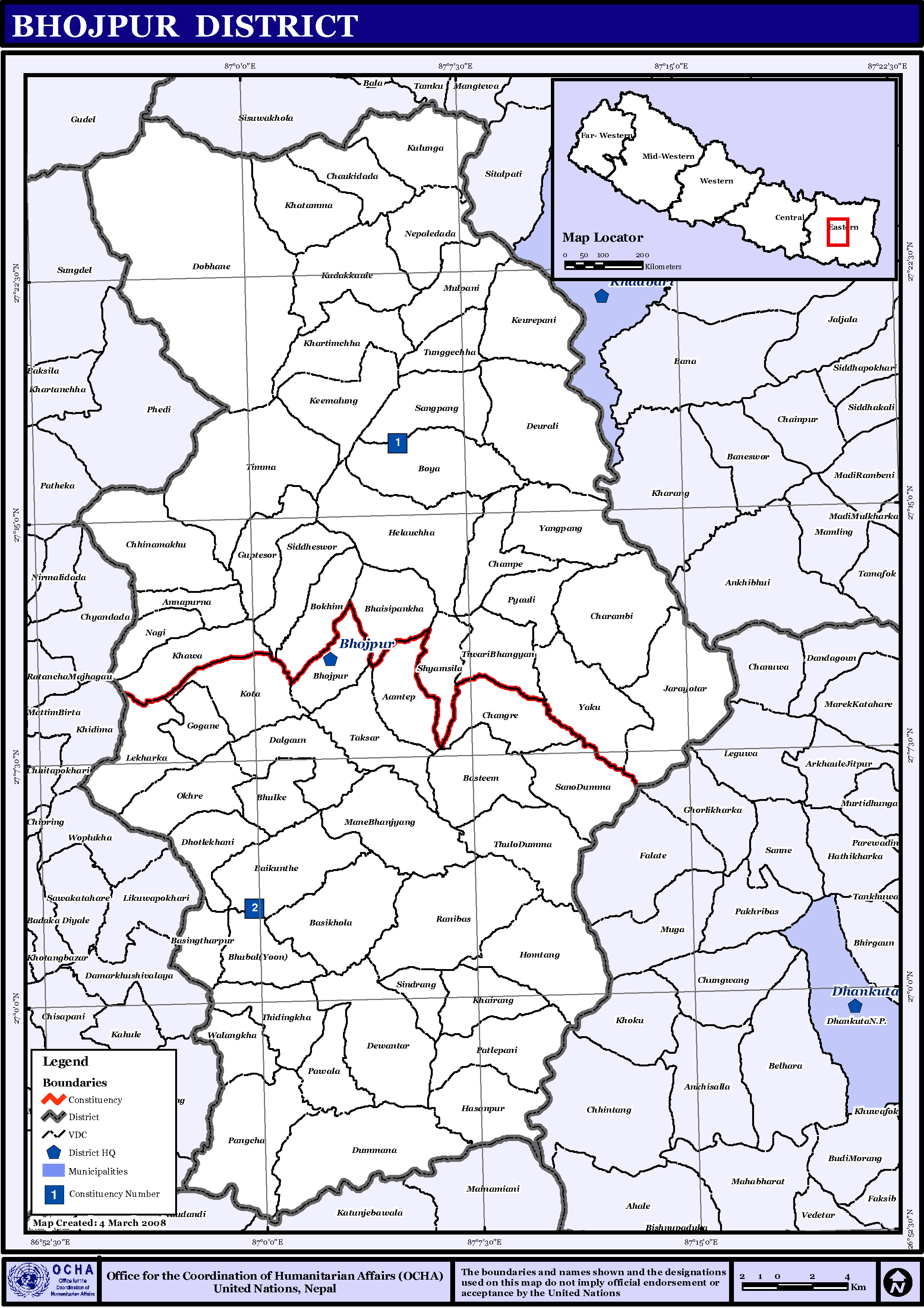 Map displaying Village Development Committees in Bhojpur District, Nepal